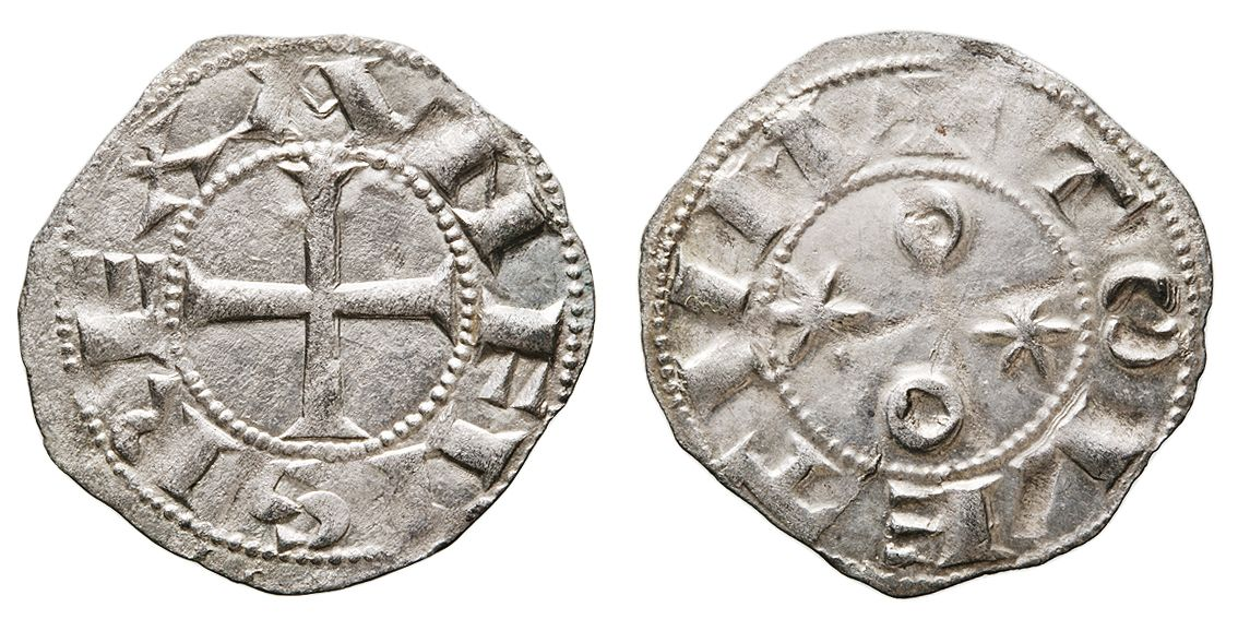 Castilian dinero, silver-rich billon coin from the reign of Alfonso VI of León and Castile (1073-1109). Minted in Toledo after 1085.